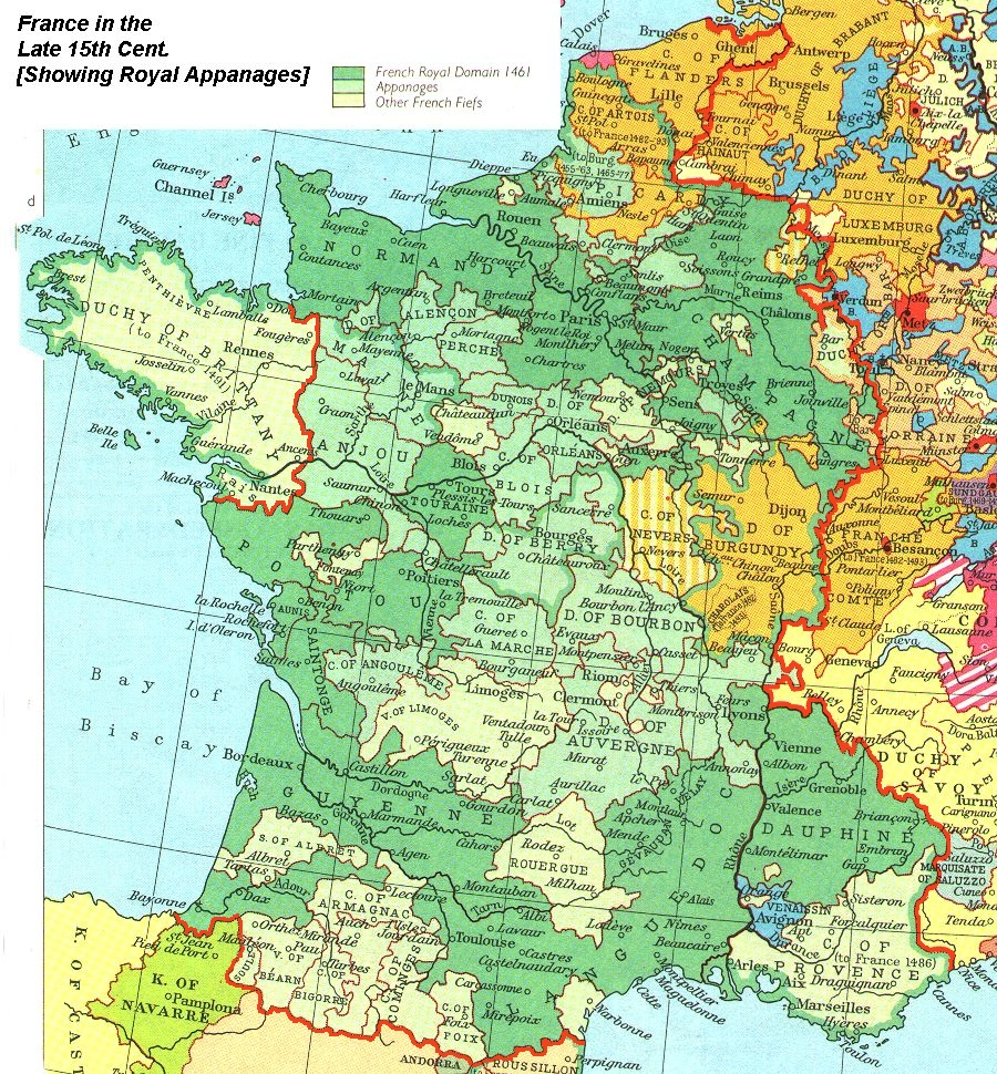 i have modified this map to put the frontary of the kingdom of France in 1500.